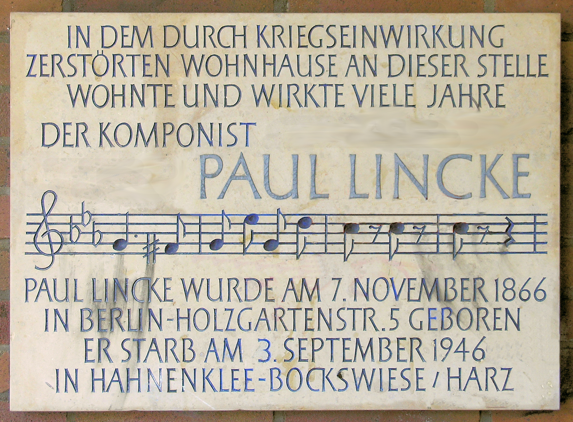 Memorial plaque, Paul Lincke, Oranienstraße 64, Berlin-Kreuzberg, Germany Koordinate:52°30′14.6″N 13°24′33.1″E / 52.504056°N 13.409194°E